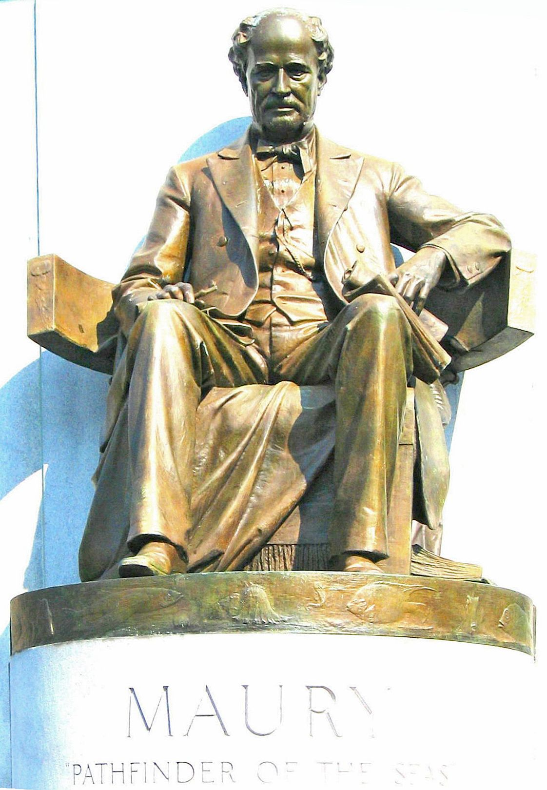 Matthew Fontaine Maury "Pathfinder of the Seas" monument in Richmond, Virginia - bottom portion only for detailed photo. Photo taken when I lived in Richmond, and all of the the monuments on Monument Avenue were being cleaned of patina by professionals and preserved from acid rain.